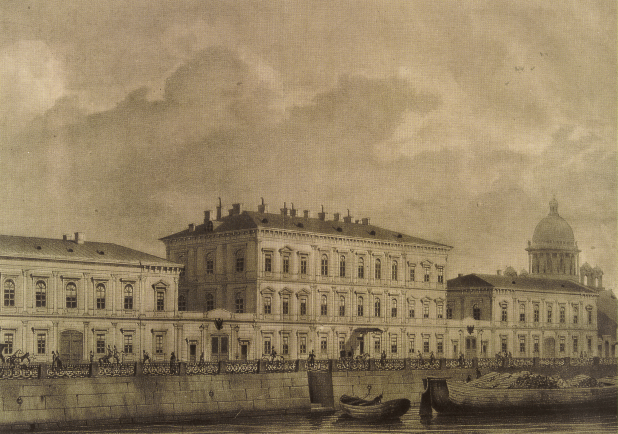 M. Lomonosov's house on Moyka river in St.Petersburg. XIX c. Litography by Victor from drawing of L. O. Primazzi.